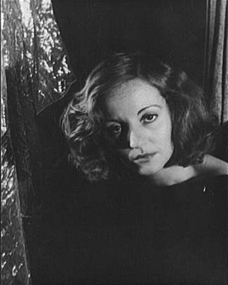 Actress Tallulah Bankhead Actress Tallulah Bankhead. January 25, 1934.